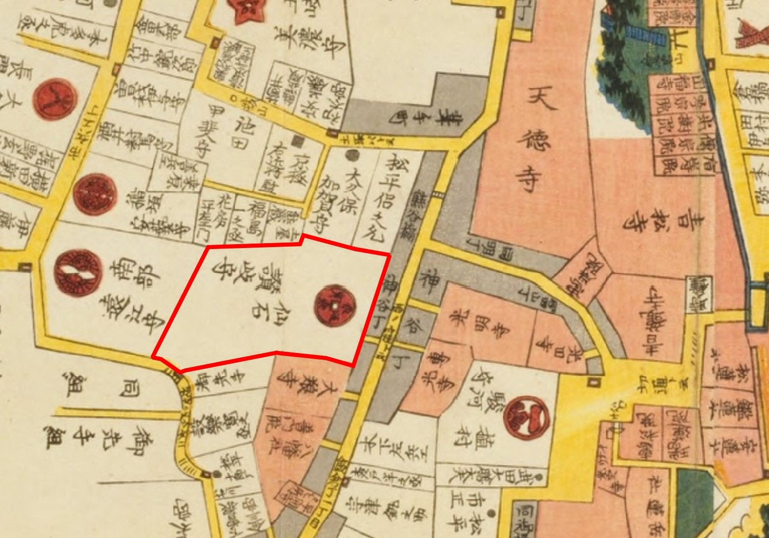 Residence of Sengoku clan at Edo (var)